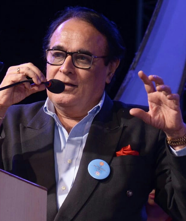 I rate this ('LIT Ratna') award at par with my National Award & HMV's Gold Disc.